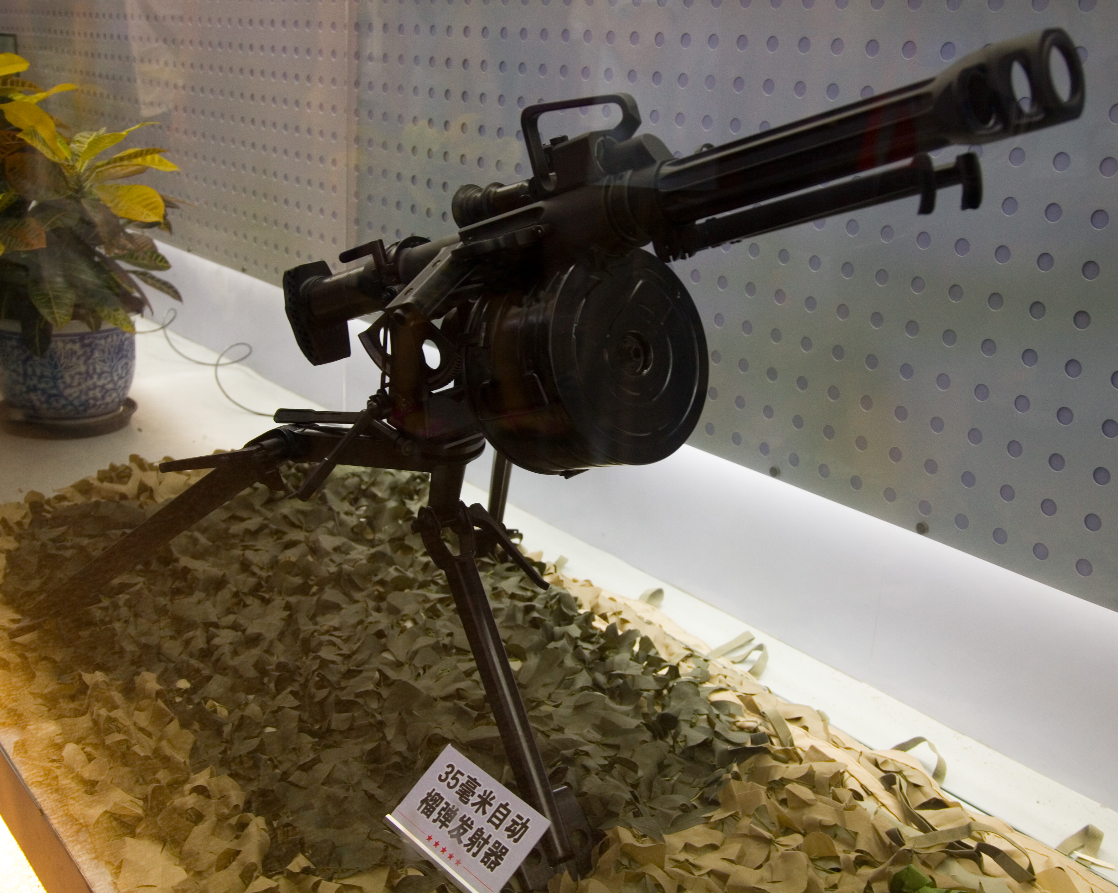 A Chinese Type 87 35mm Grenade launcher in heavy configuration with 15 round magazin, at the Beijing military museum.